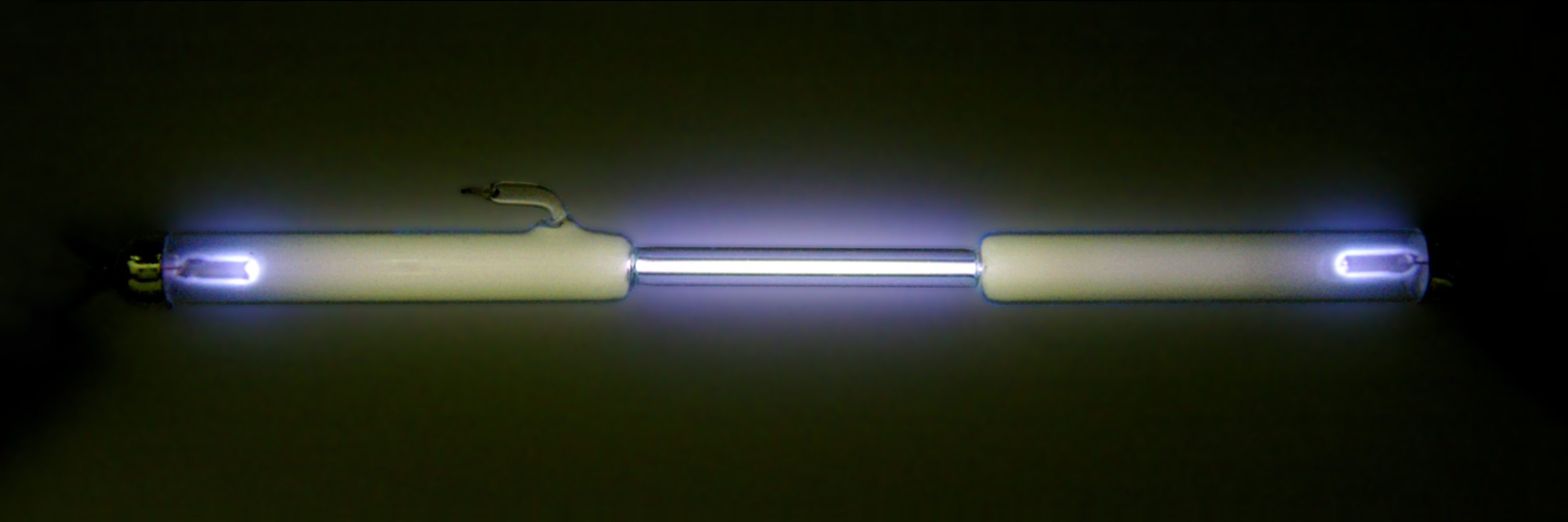 Spectrum = gas discharge tube filled with oxygen O2. Used with 1,8kV, 18mA, 35kHz. ≈8" length.